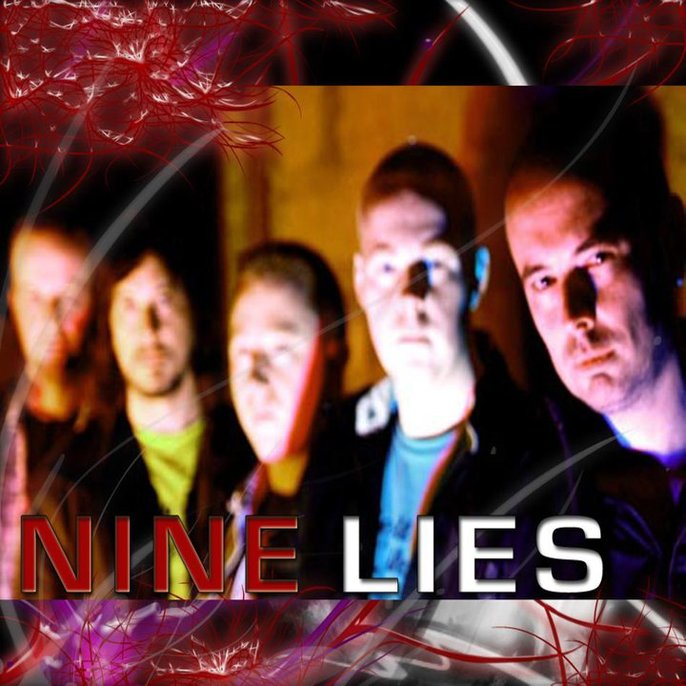 Nine Lies - Band Promo Image